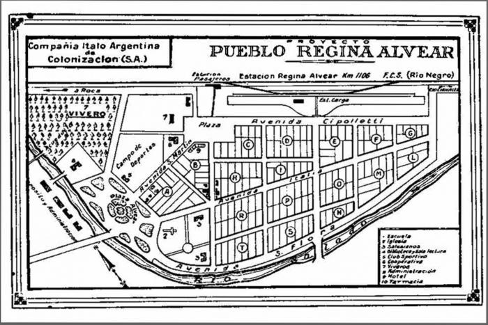 Map of Pueblo Regina de Alvear (currently Villa Regina) published by the Italian-Argentinian Colonization company.